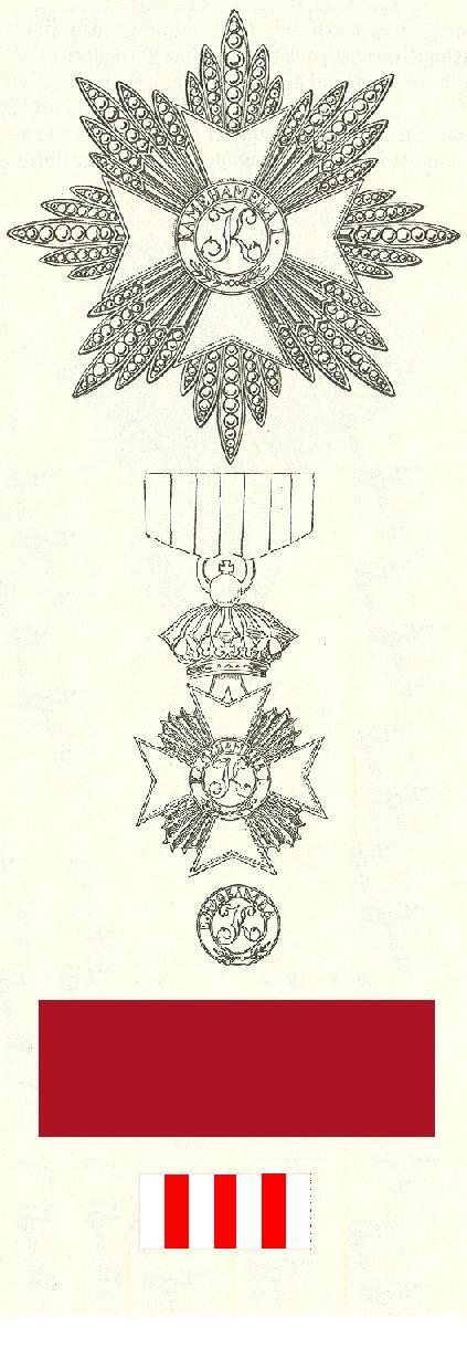 Knight's cross with ribbon of the Order of Kamehameha